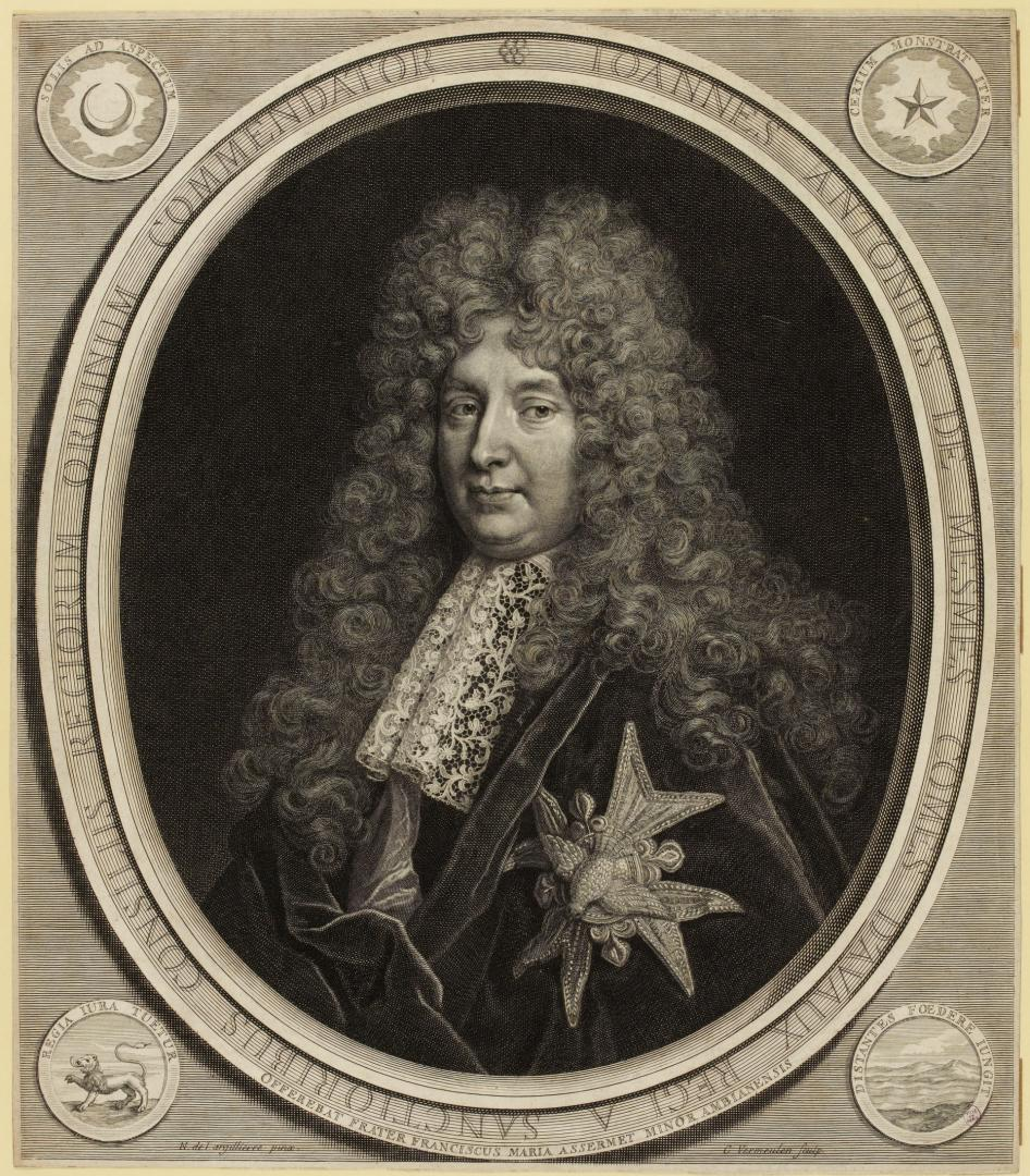 Jean-Antoine de Mesmes painted by Nicolas de Largillière engraved by Cornelis Martinus Vermeulen 1691